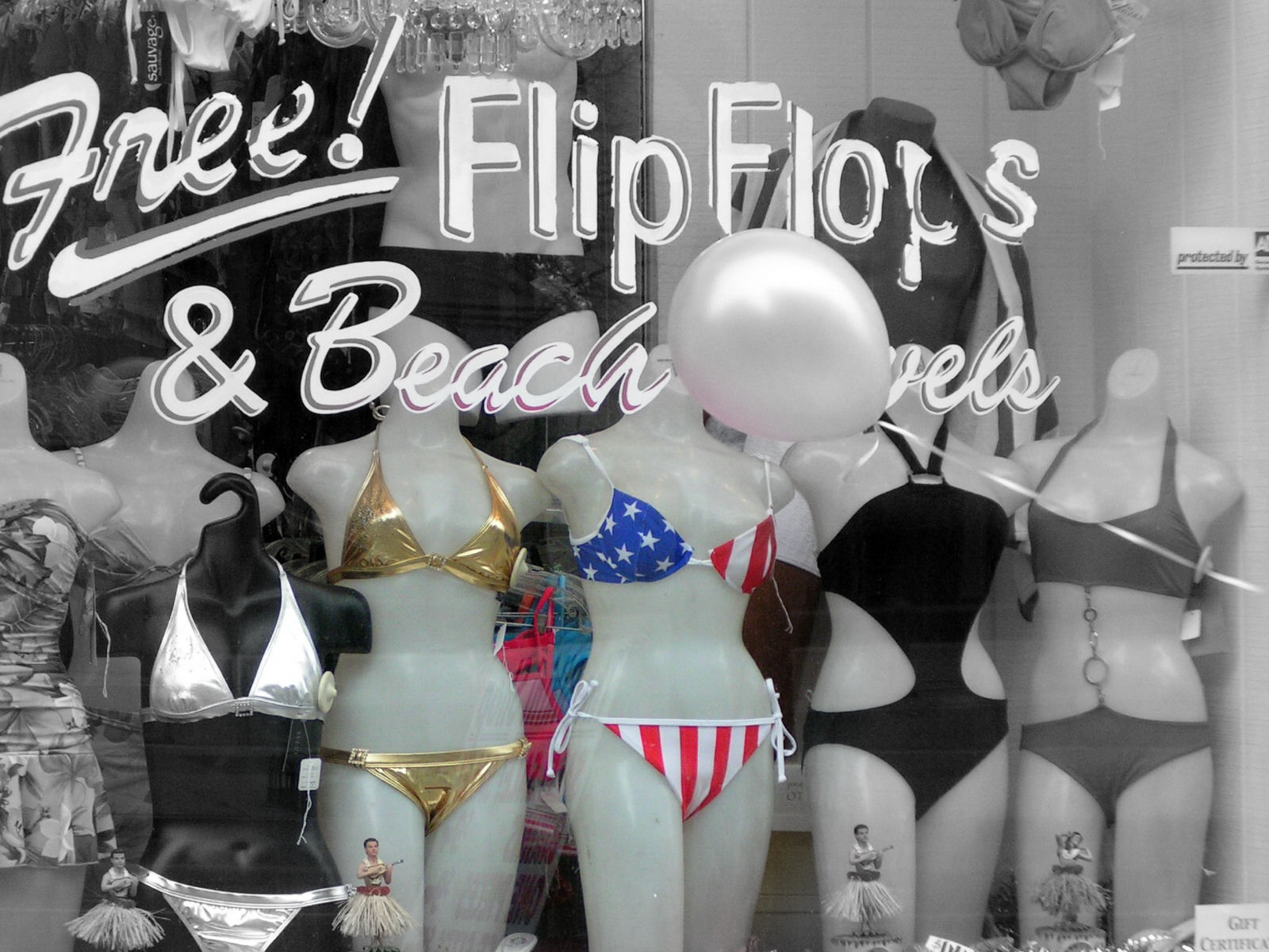 Colour bikinis, shop window